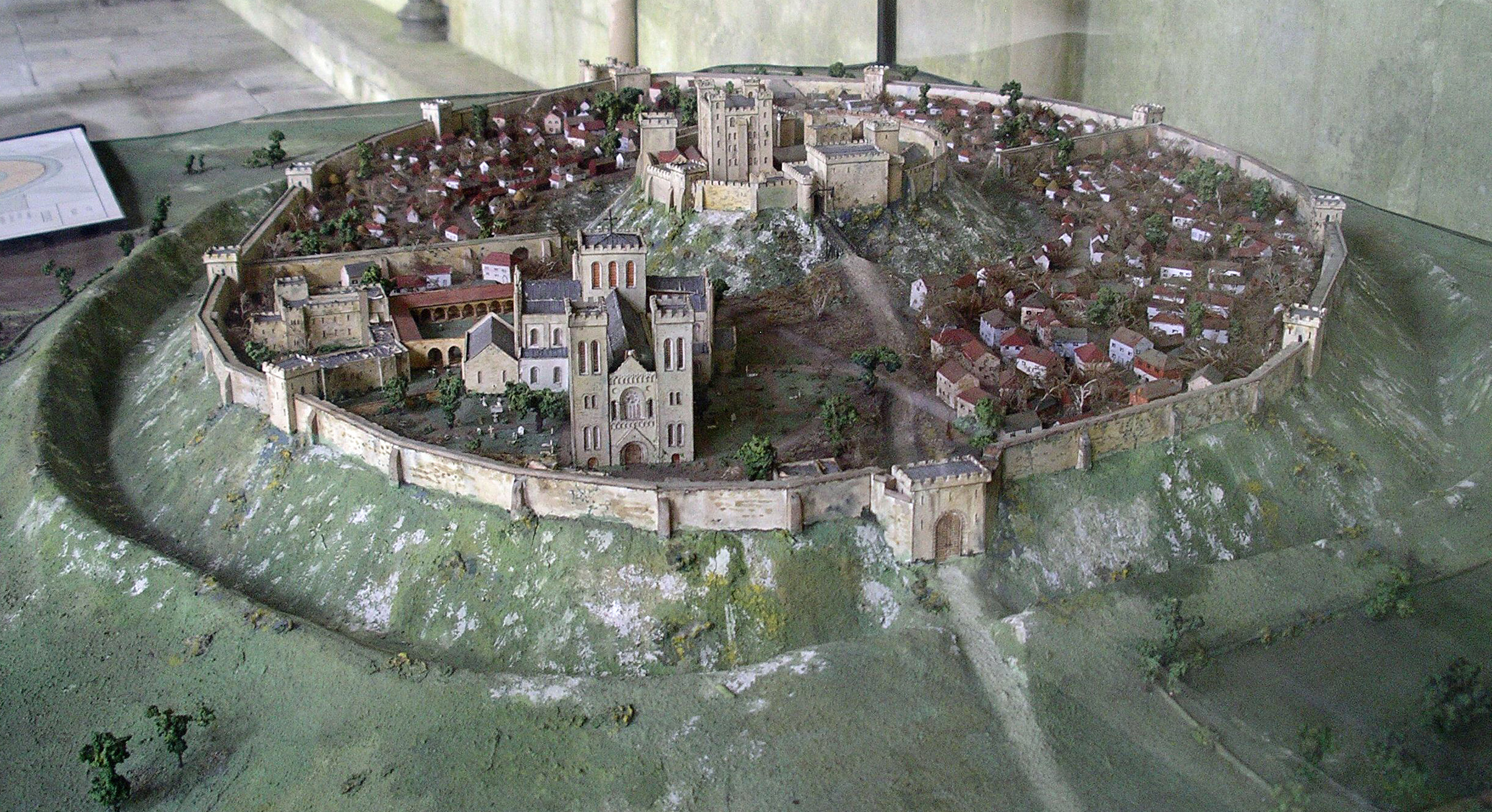 Model of Castle and Cathedral of Old Sarum as they would have appeared in the latter part of the 12th century, by John B. Thorp, London, 1927. View from West. Scale of 32 feet to an inch. Exhibited in the cloister of Salisbury Cathedral.